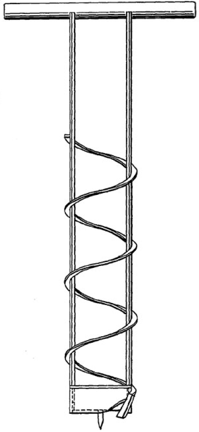 1954 patent drawing of ice auger designed by Melvin C. Johnson